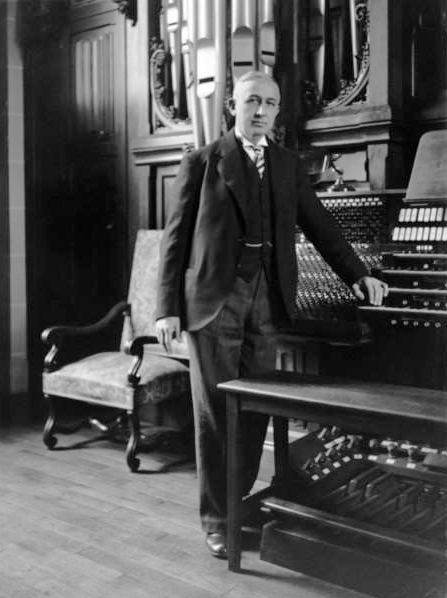 French organist and composer Marcel Dupré (1886-1971) in front of his pipe organ at Meudon.